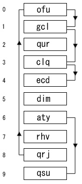 Coalesced hashing example by Eternally Confuzzled.